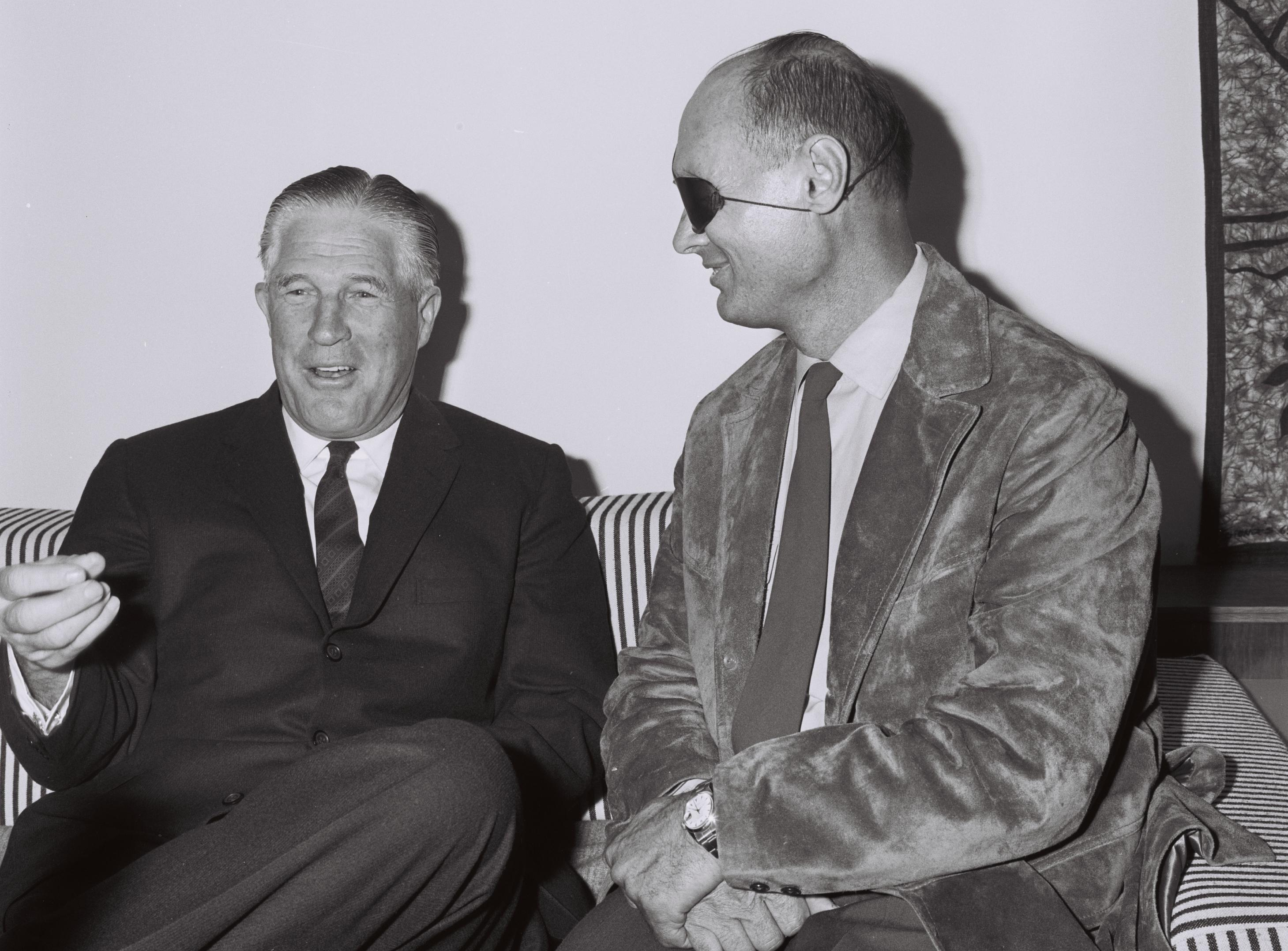 Governor George Romney of Michigan with Defense Minister Moshe Dayan at the Hilton hotel in Tel Aviv, 21 December 1967